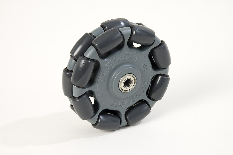 The Rotacaster Double Wheel